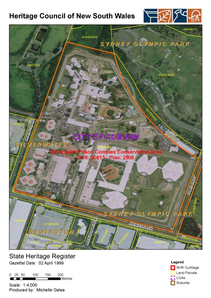 Silverwater Prison Complex Conservation Area: SHR Plan 2508